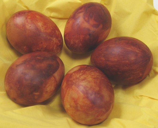 Author Charles Alexander (Sasha) Clarkson. This is a picture of pace-eggs which I prepared in the traditional Northumbrian (Teesside and north) fashion by boiling white eggs wrapped in onion skins.